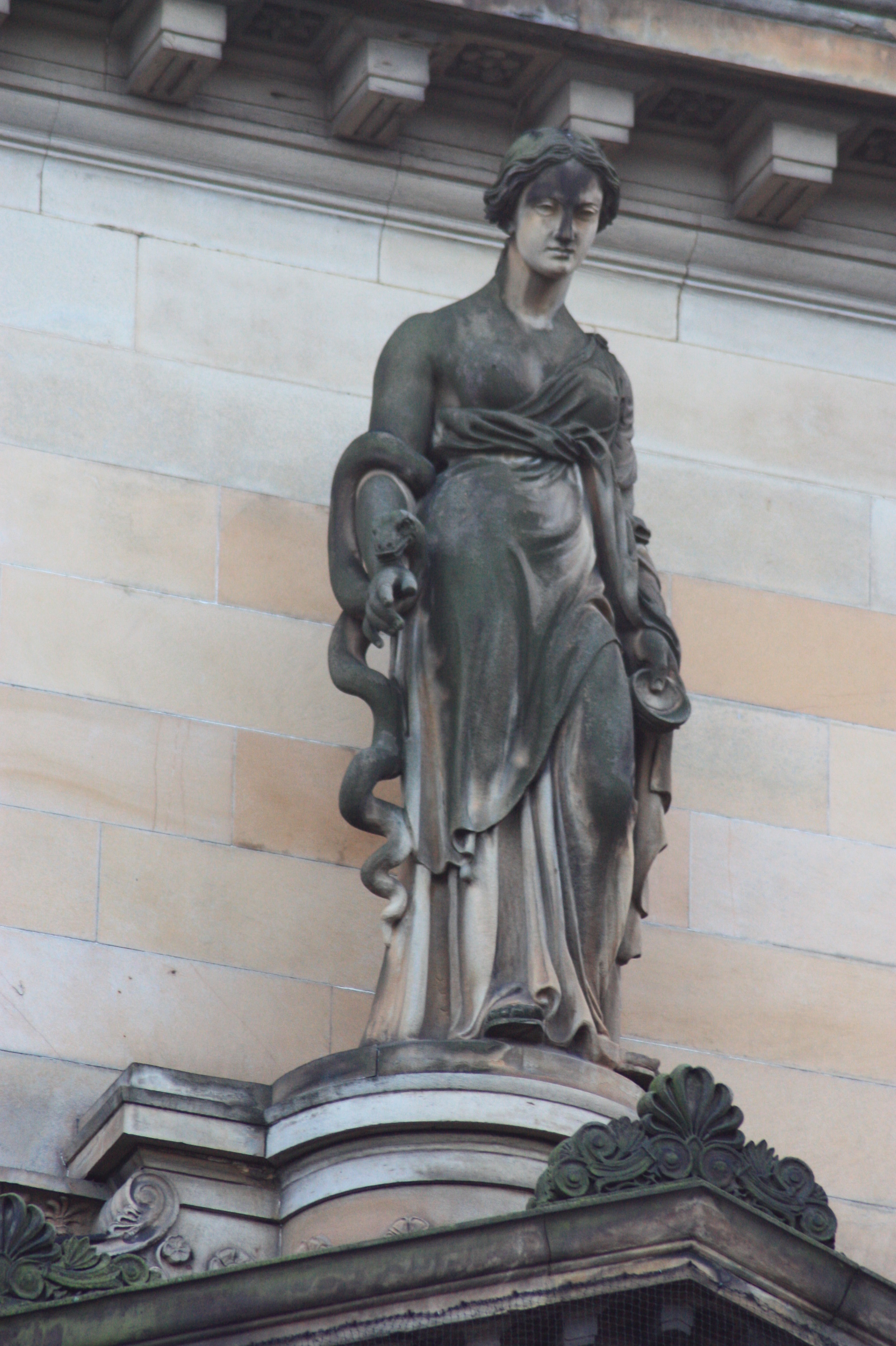 Hygieia by Alexander Handyside Ritchie, College of Physicians, Queen Street, Edinburgh